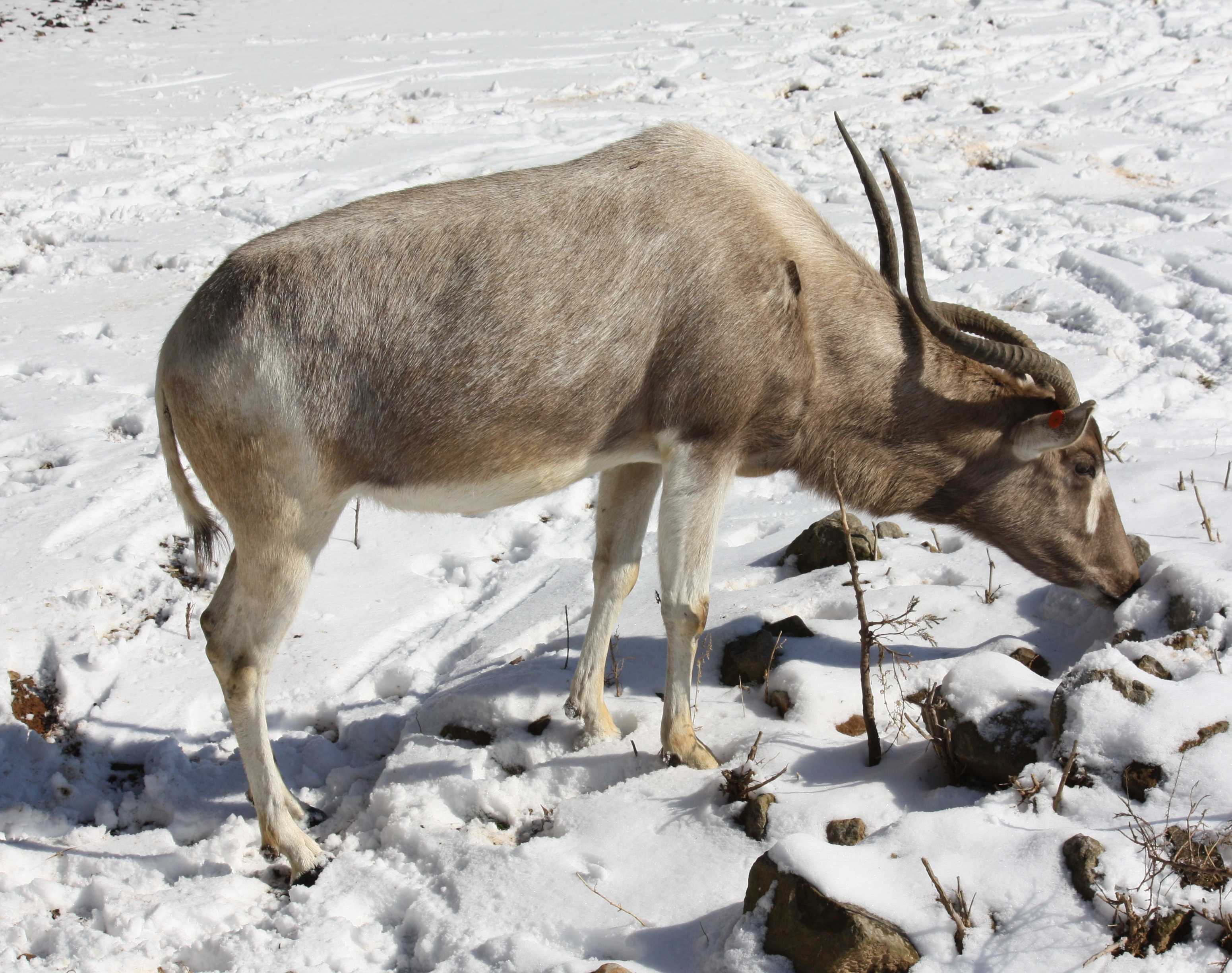 Addax Addax nasomaculatus in the Snow at the Louisville Zoo